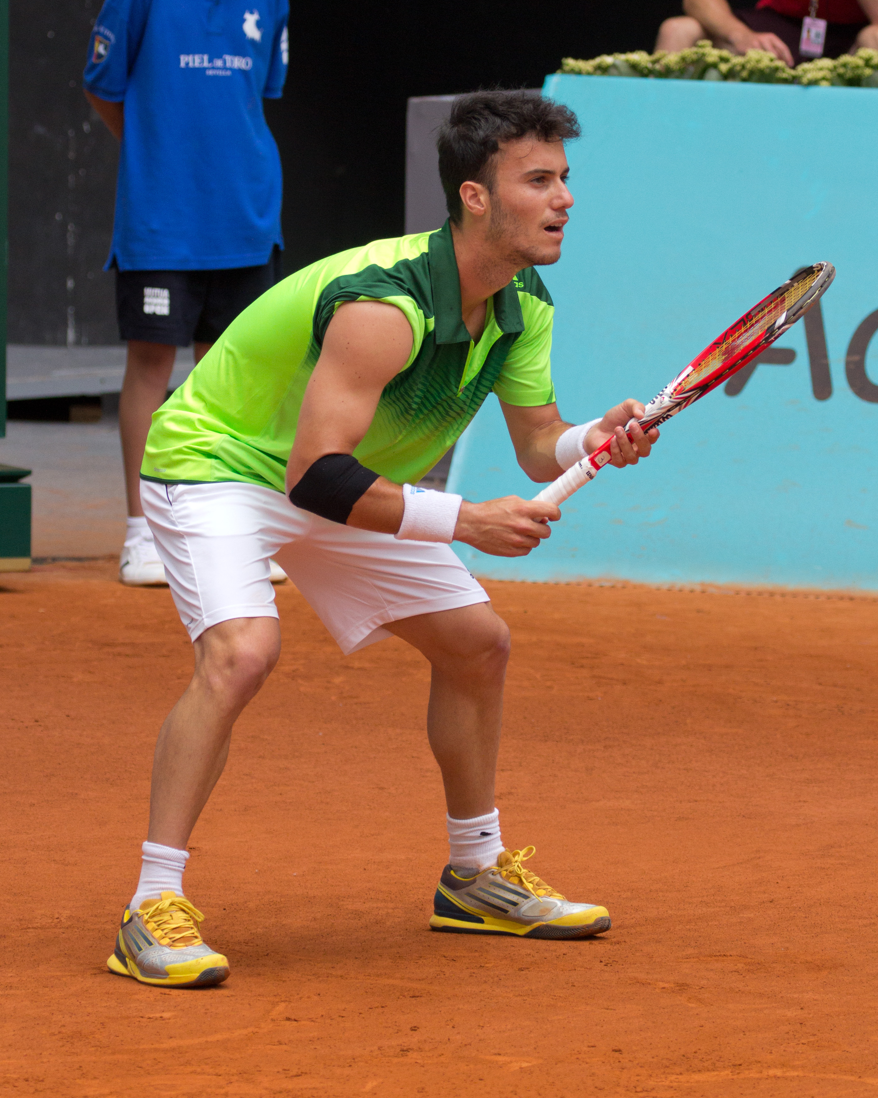 Javier Martí at the Madrid Open 2015, Madrid, Spain.